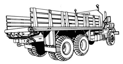 Right back side M328 bridge transporting truck